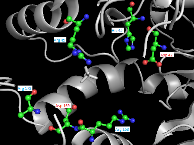 Zoomed in on certain residues of phosphoribulokinase in Rhodobacter sphaeroides